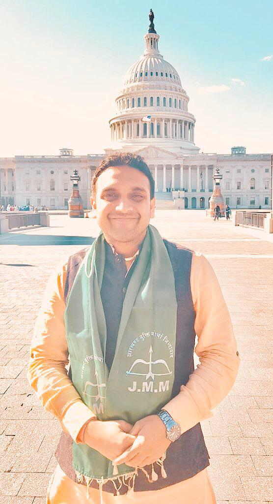 Kunal Sarangi infront of Capitol House, Washington DC